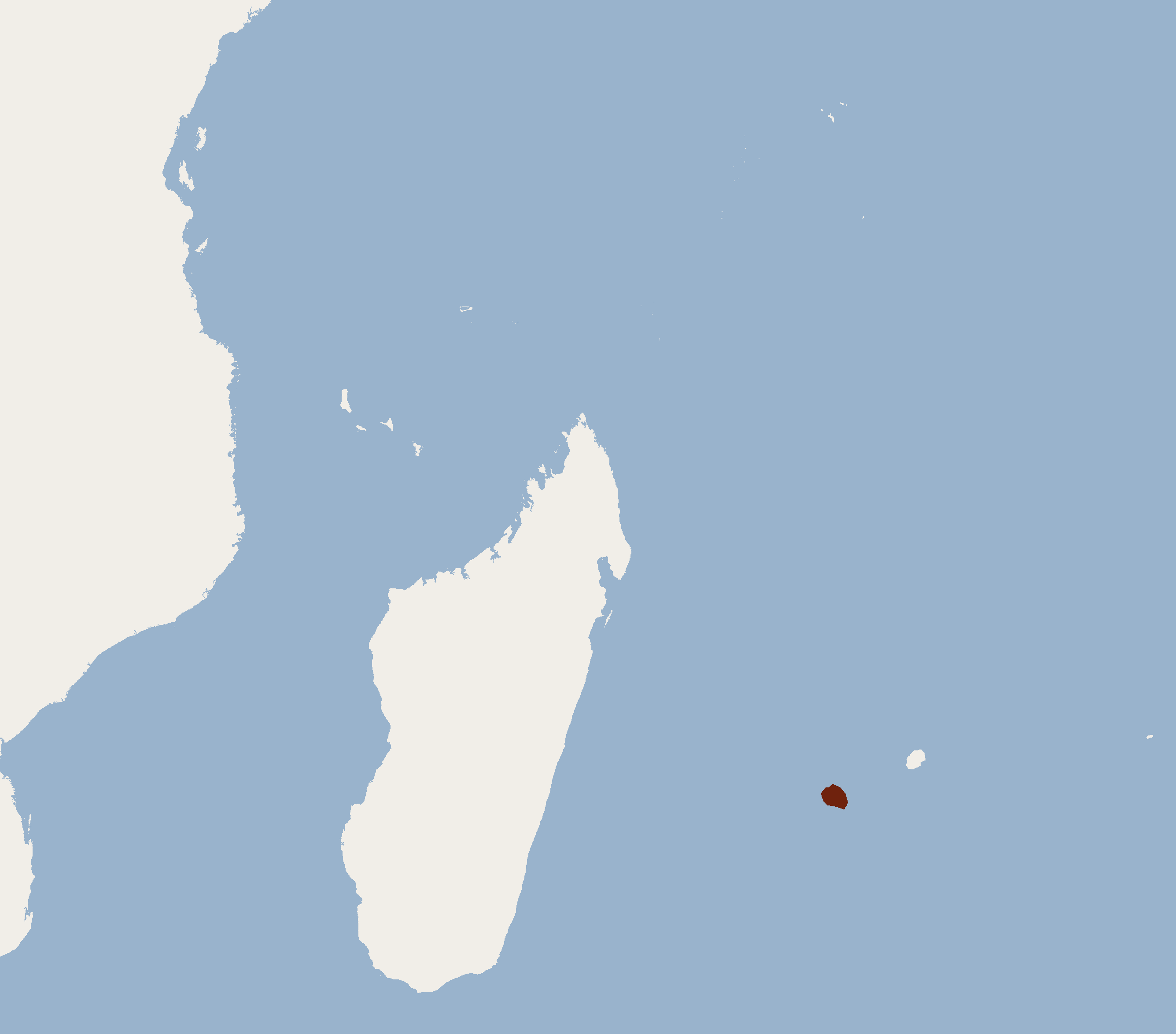 Geographical distribution of Mormopterus francoismoutoui according to Museum specimens.